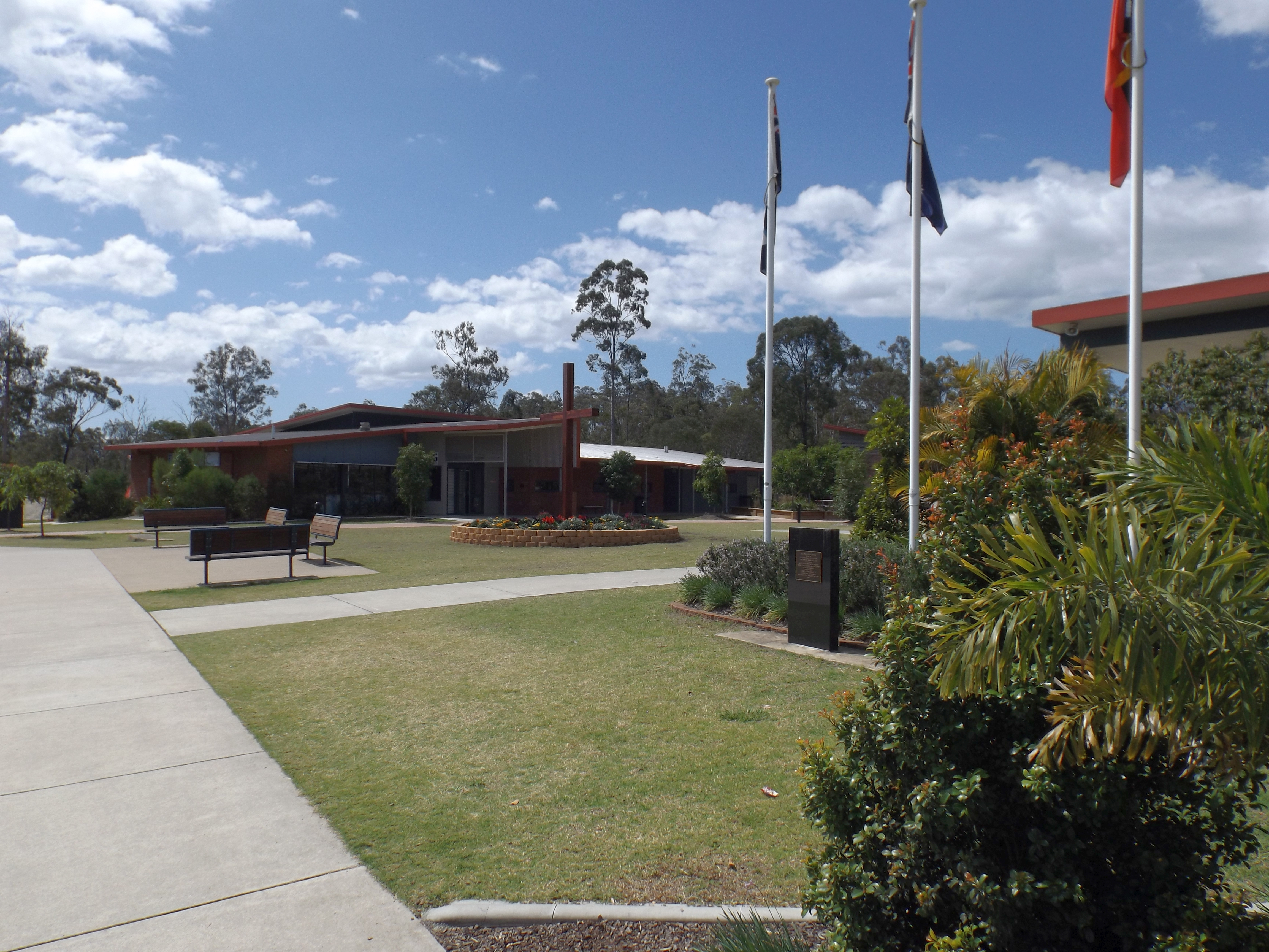 The Springfield College war memorial at Springfield, City of Ipswich, Queensland, Australia.